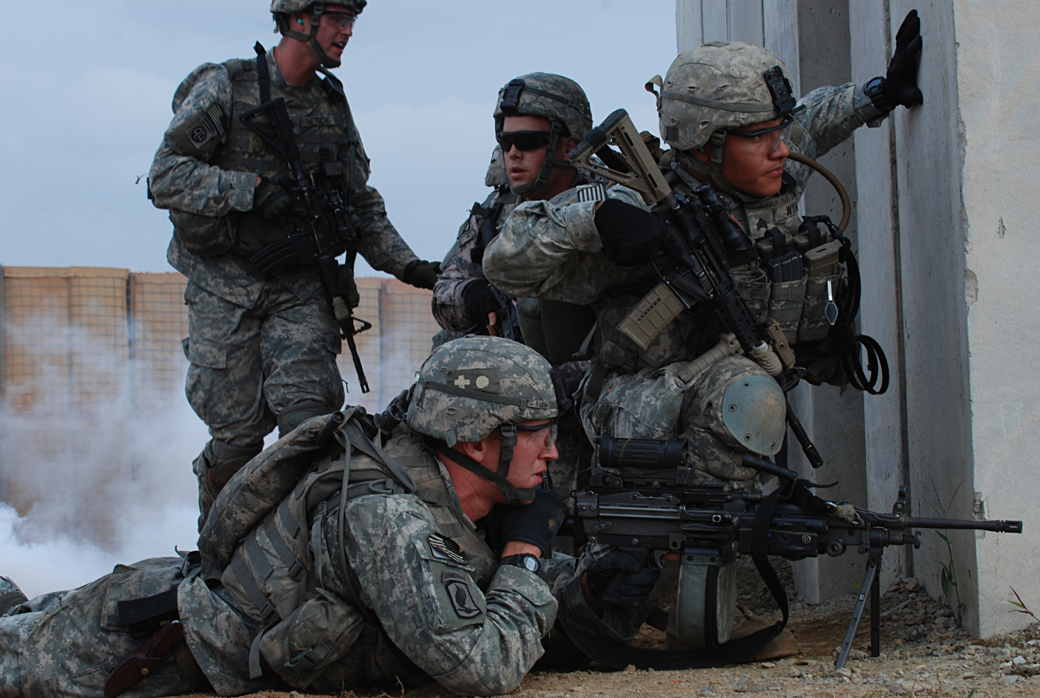 Paratroopers from Company B, 2nd Battalion, 325th Airborne Infantry Regiment, 2nd Brigade Combat Team, 82nd Airborne Division, set up a local support by fire position while assaulting an objective during combined arms live fire training at Fort Bragg, Sep. 17.